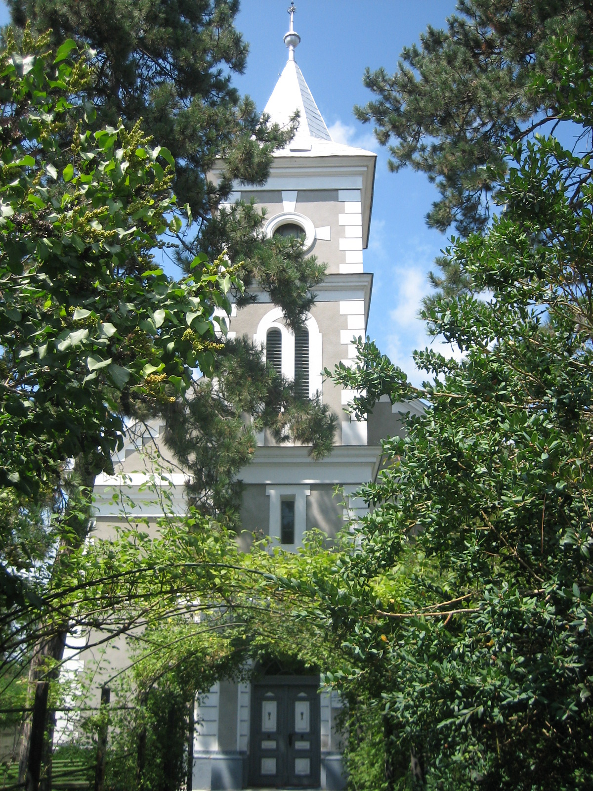 The Reformed church in Ocna Mureş (Marosújvár)